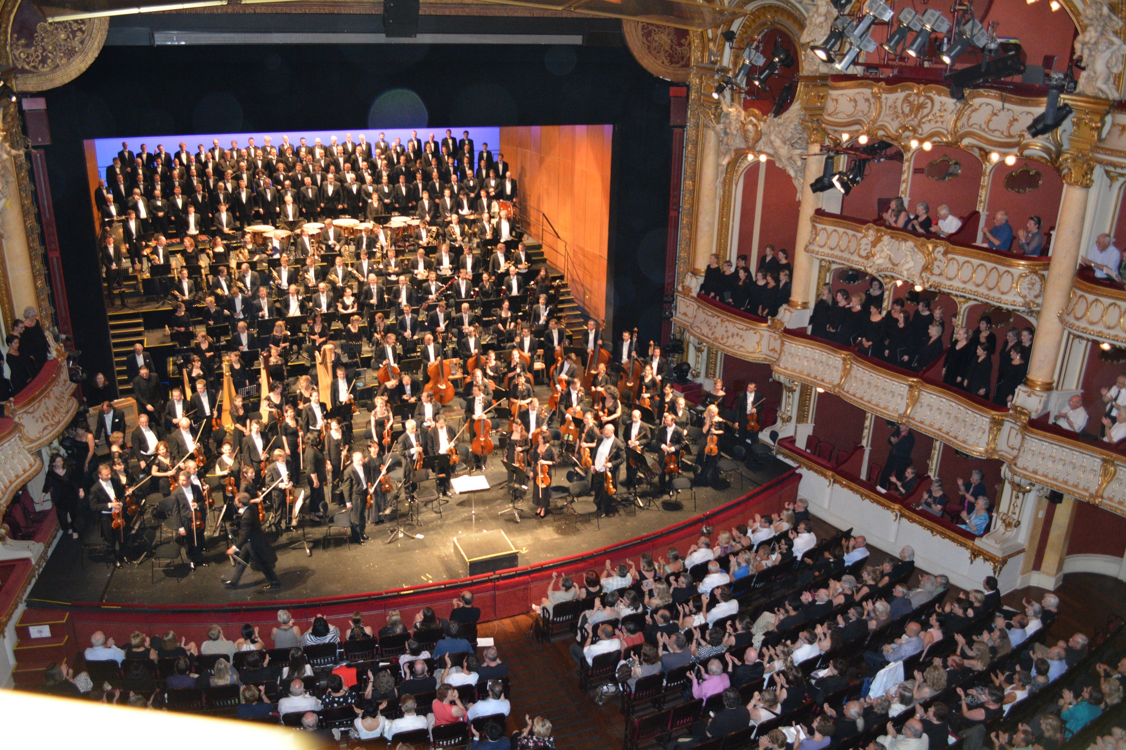 Gurrelieder-Graz2013